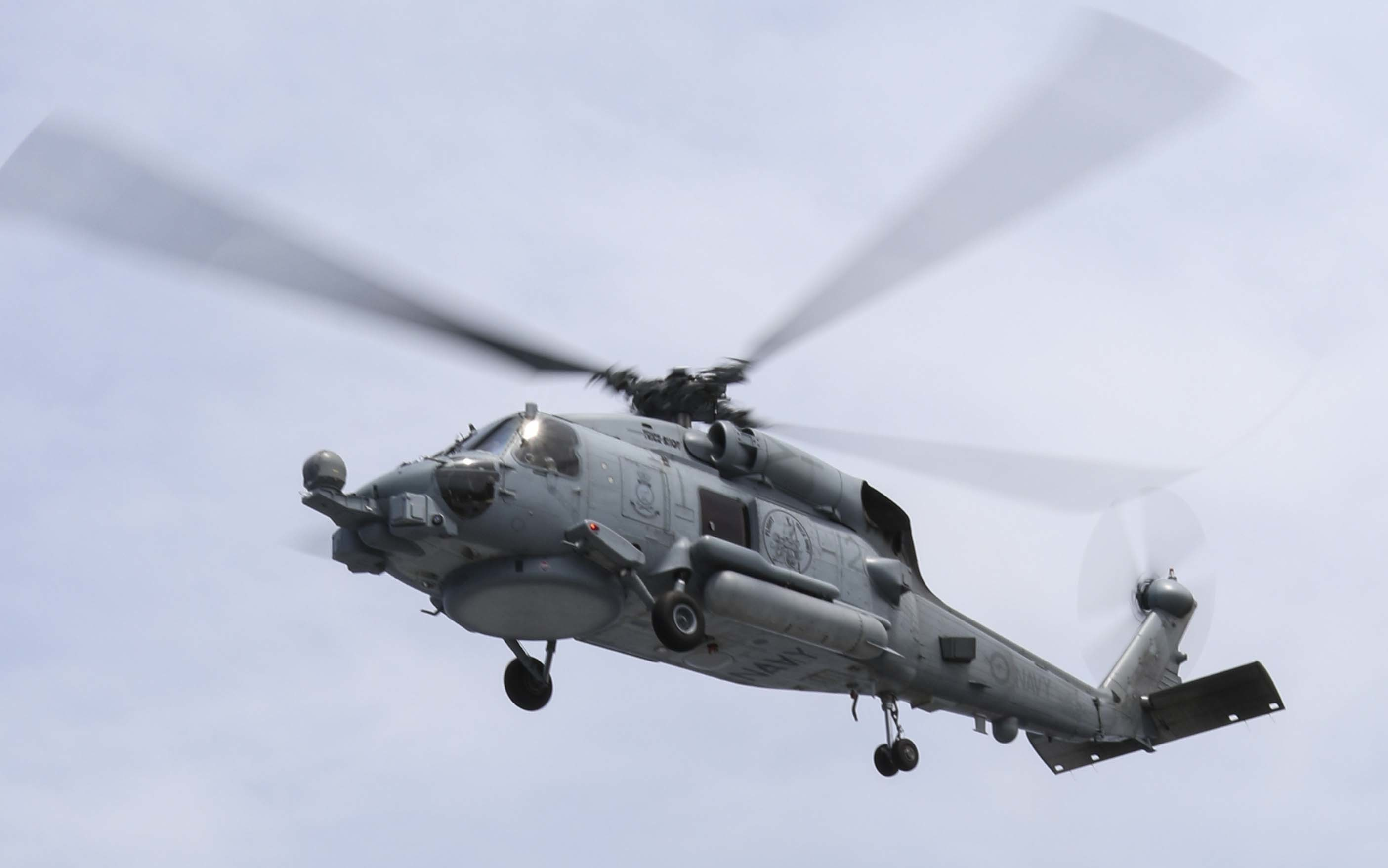 A MH-60R Seahawk helicopter, assigned to the Royal Australian Navy helicopter landing dock ship HMAS Adelaide